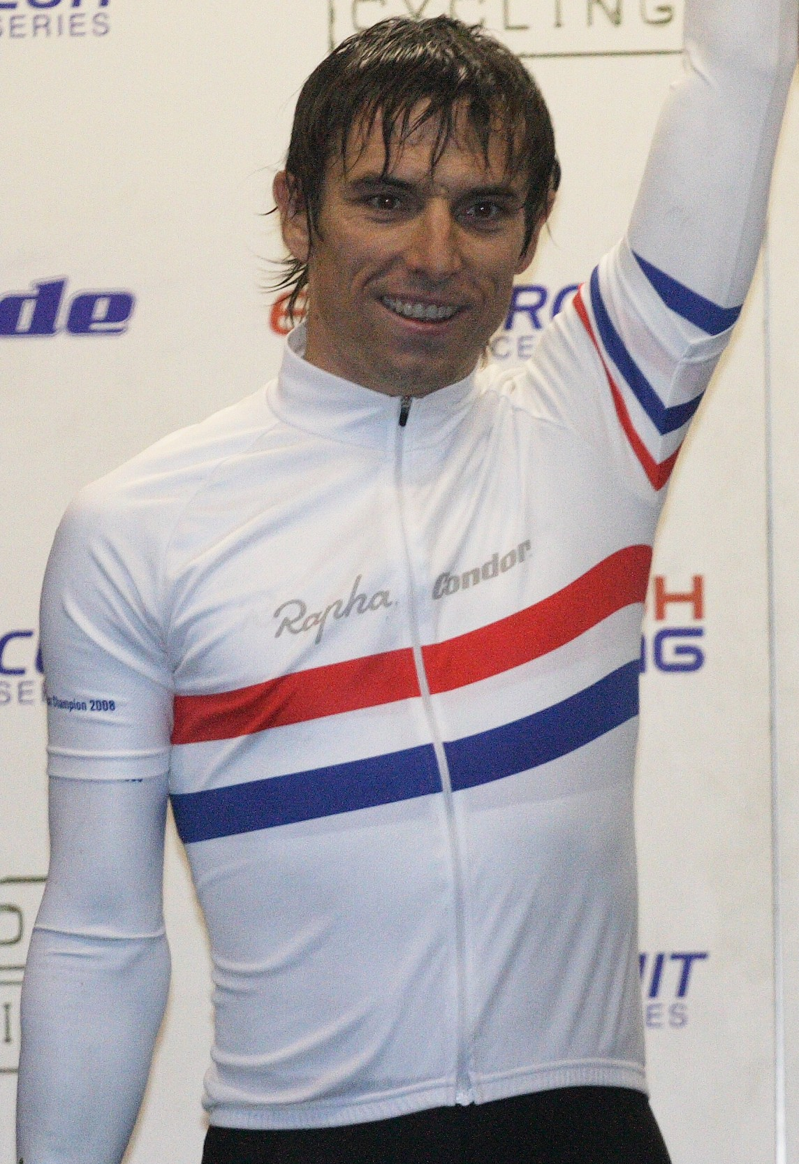 Dean Downing on the podium as winner of the 2009 Brighouse British Cycling Elite Circuit Series event.